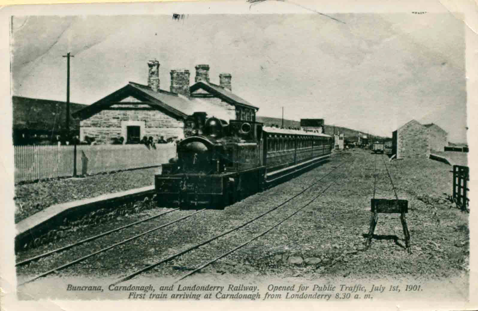 Train arriving at Carndonagh Station circa 1901